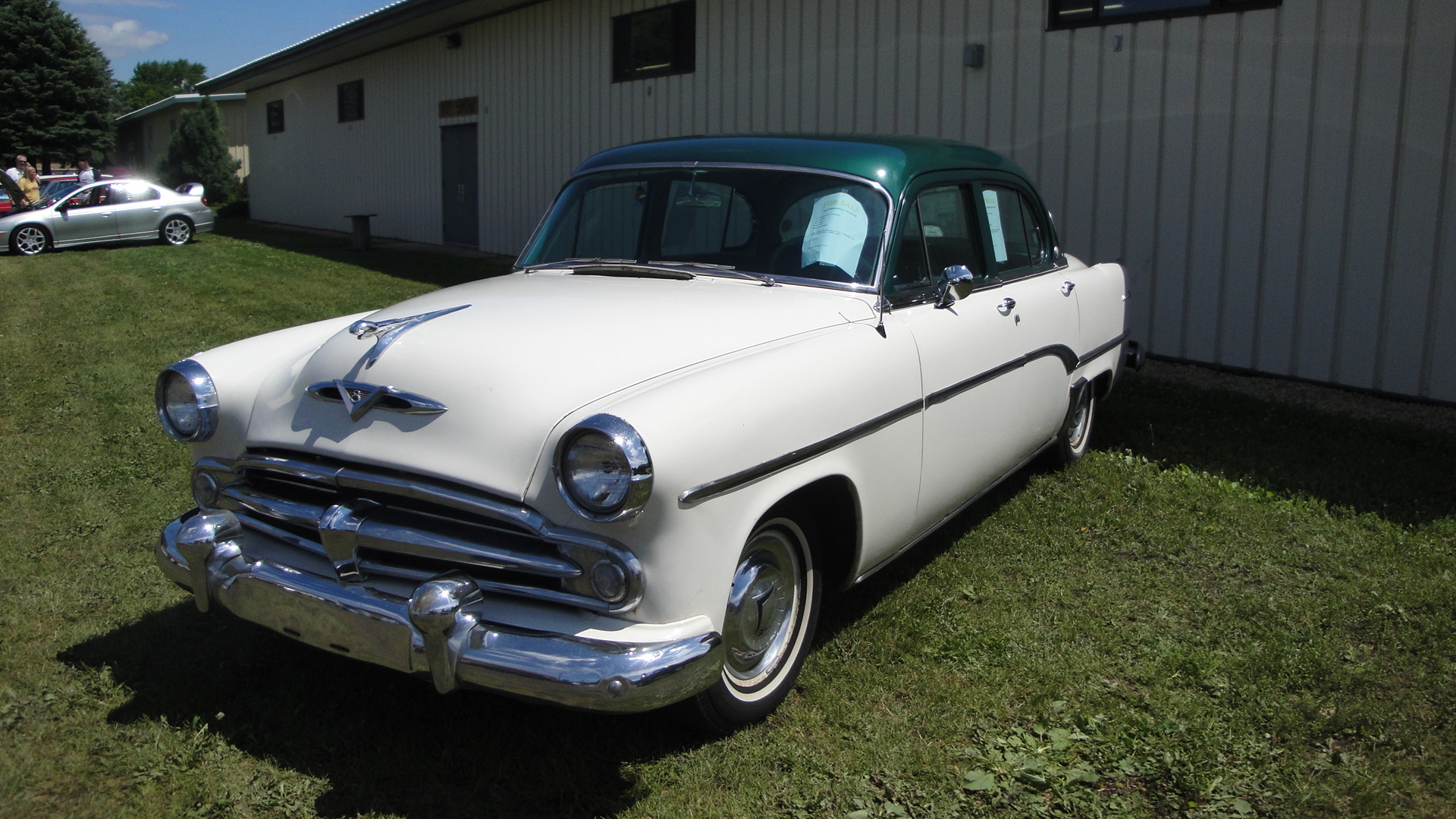 Mopars in the Park 2010 by Midwest Mopars